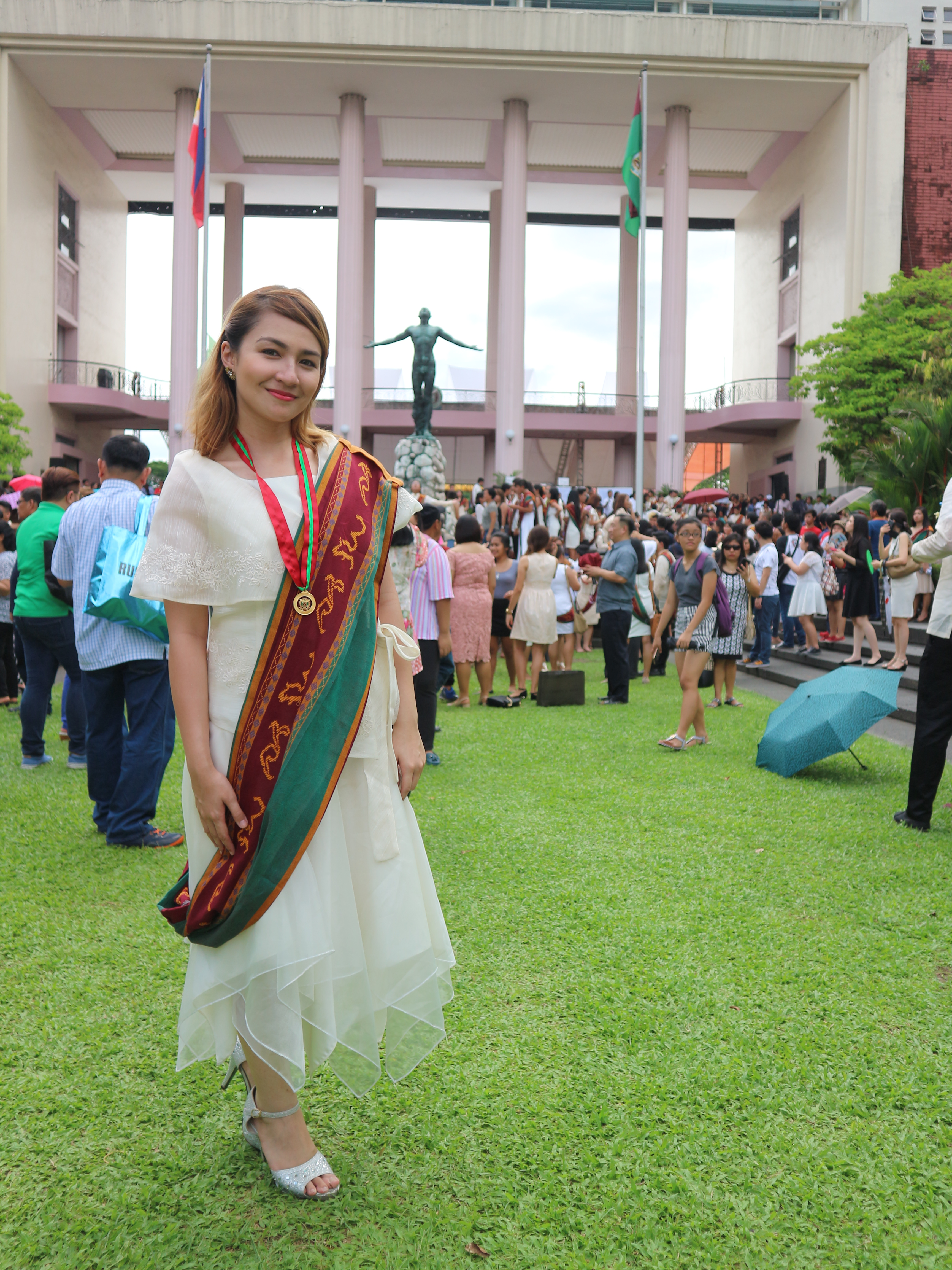 Gerphil Flores Graduating Cum Laude, Bachelor of Music in Voice. June, 2016. University of the Philippines.